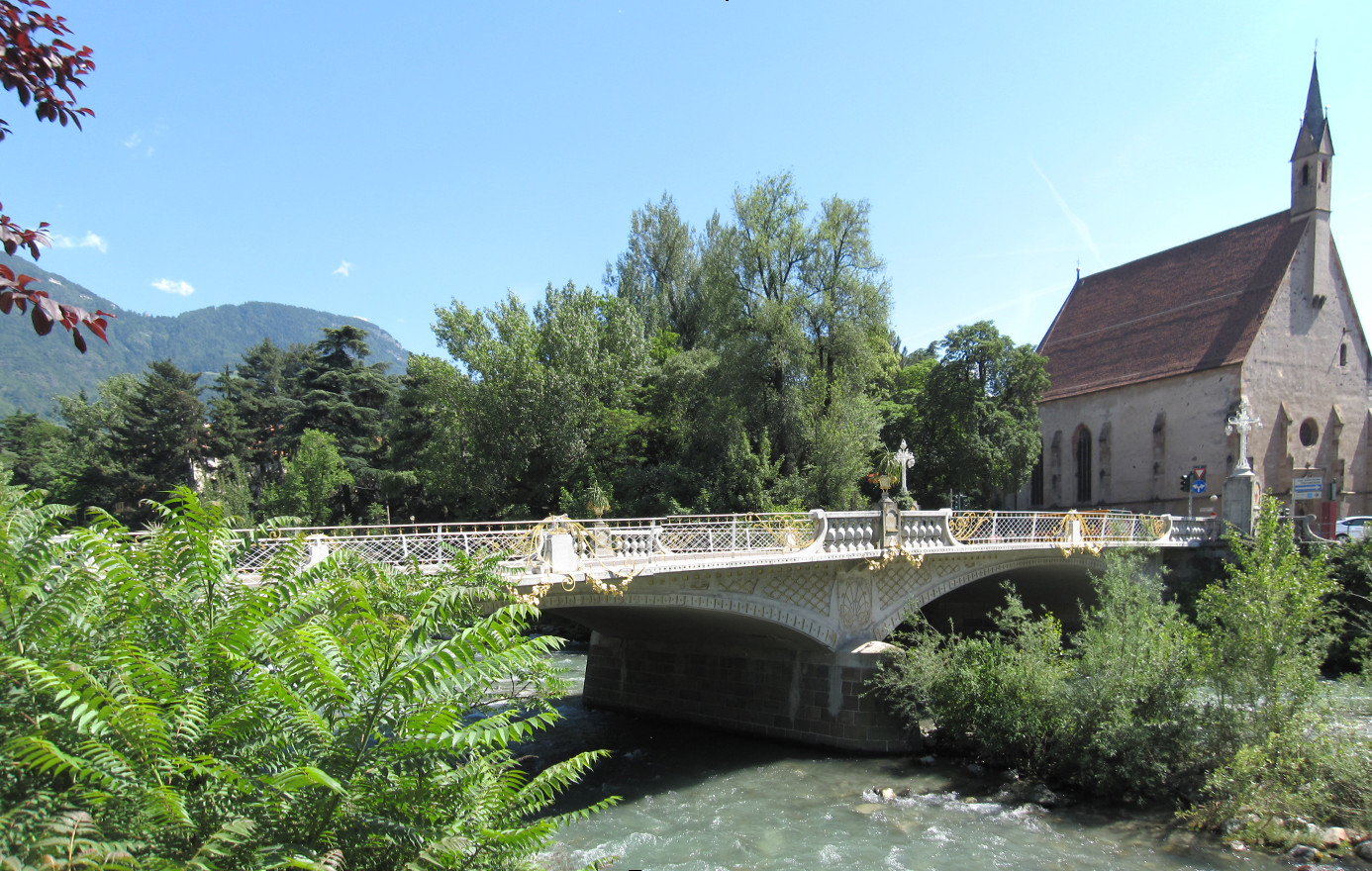 Postbrücke (Post Bridge) and Spitalkirche (Hospital Church) in Meran, South Tyrol.